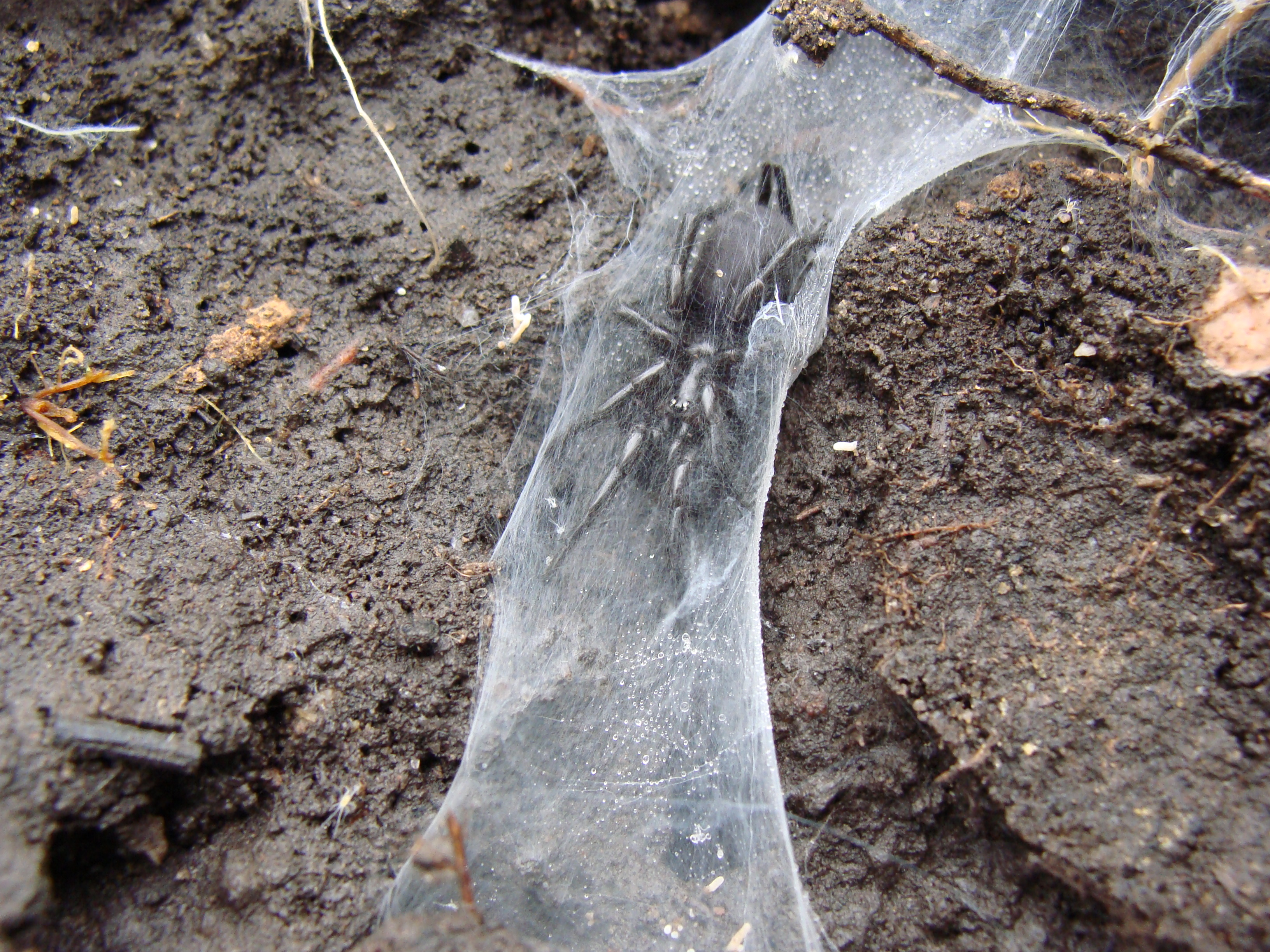 Macrothele calpeiana in Los Alcornocales Natural Park, Andalucia, Spain.